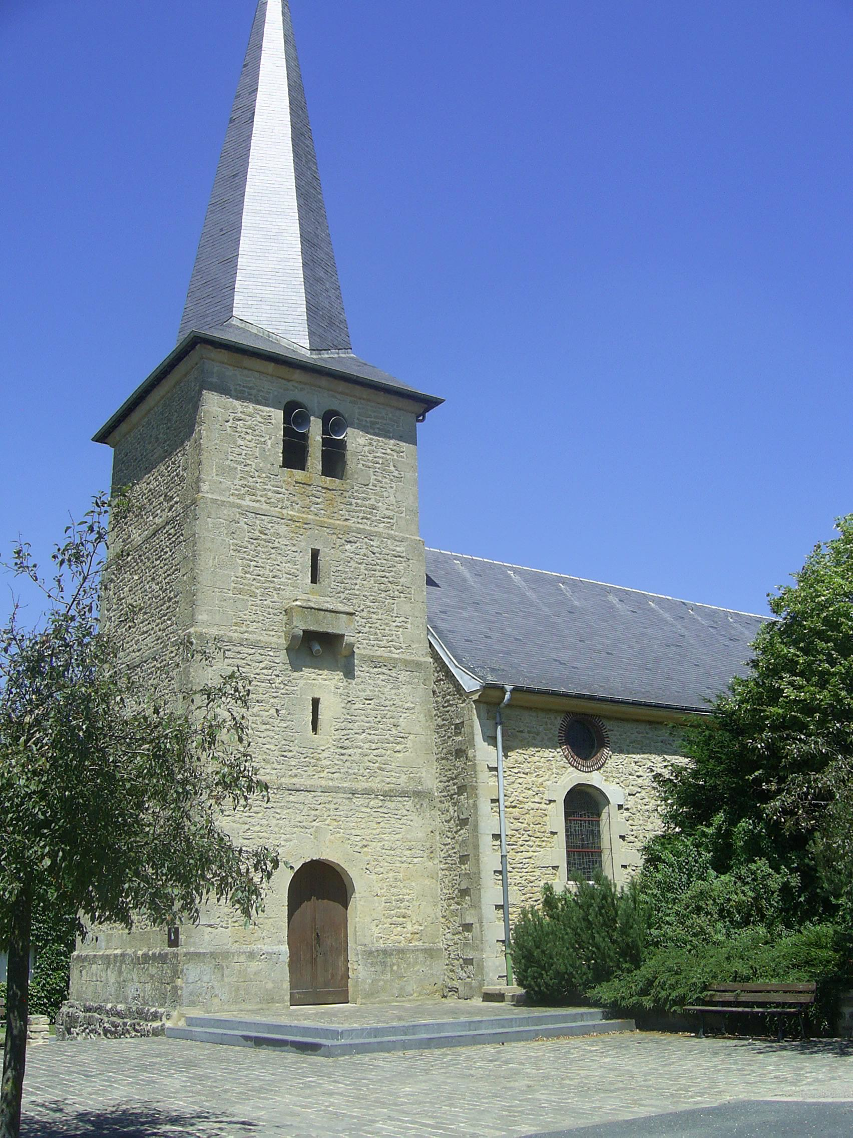 Church of Margut